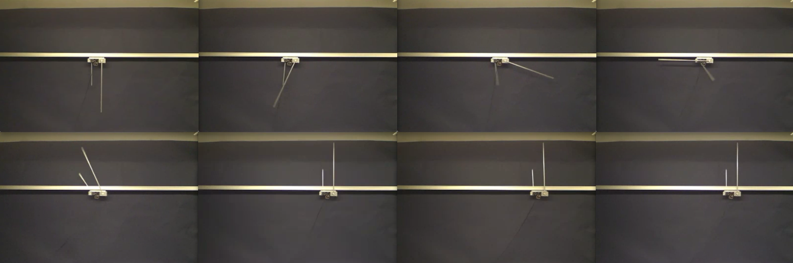 smooth nonlinear trajectory planning with linear quadratic Gaussian feedback (LQR) control on a dual pendula system.